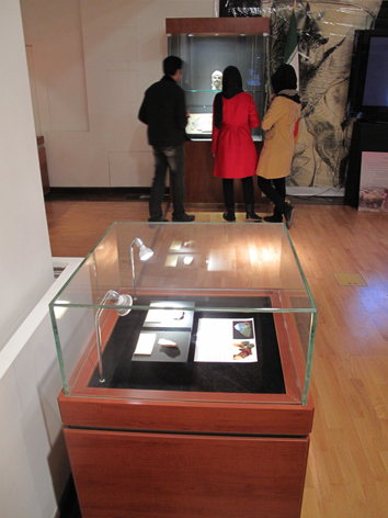 Showcase containing two recent discovered stone tools from 2012 excavations at the Lower Paleolithic cave site of Darband, National Museum of Iran January 2013